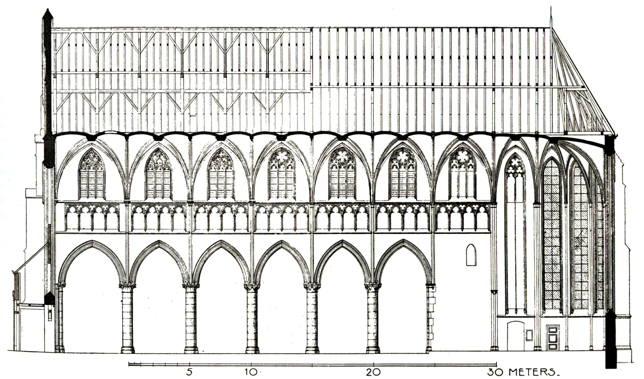 Maastricht, the Netherlands. Cross section of the Dominican church. Drawing by the architect Adolph Mulder, 1895.